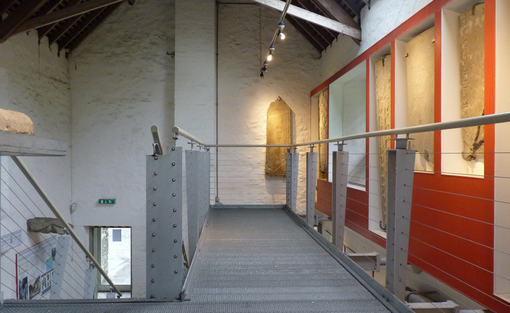 Margam Stones Museum, Nr Port Talbot. the upper gallery houses the Cistercian and post-Reformation grave slabs.